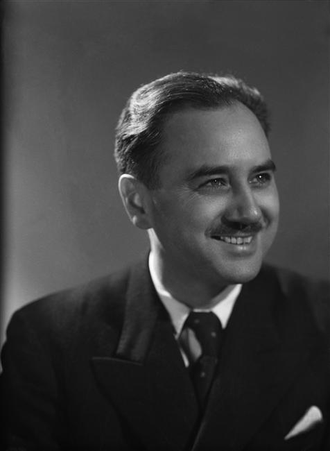 Studio photo